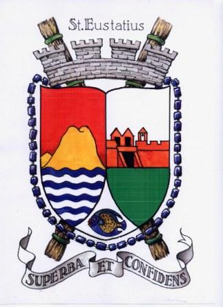 Coat-of-arms St. Eustatius